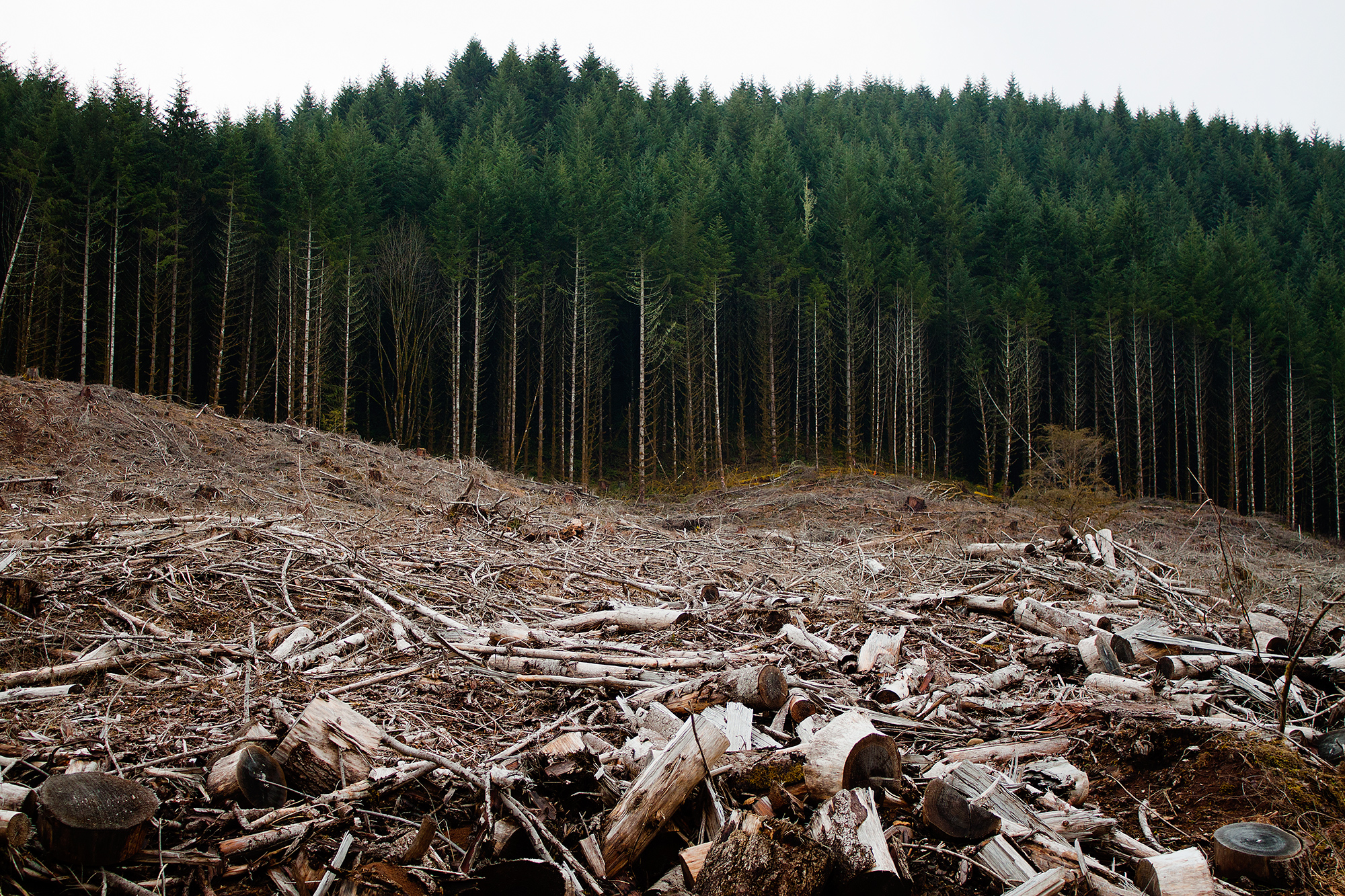 Clear-cut forests near Eugene, Oregon.